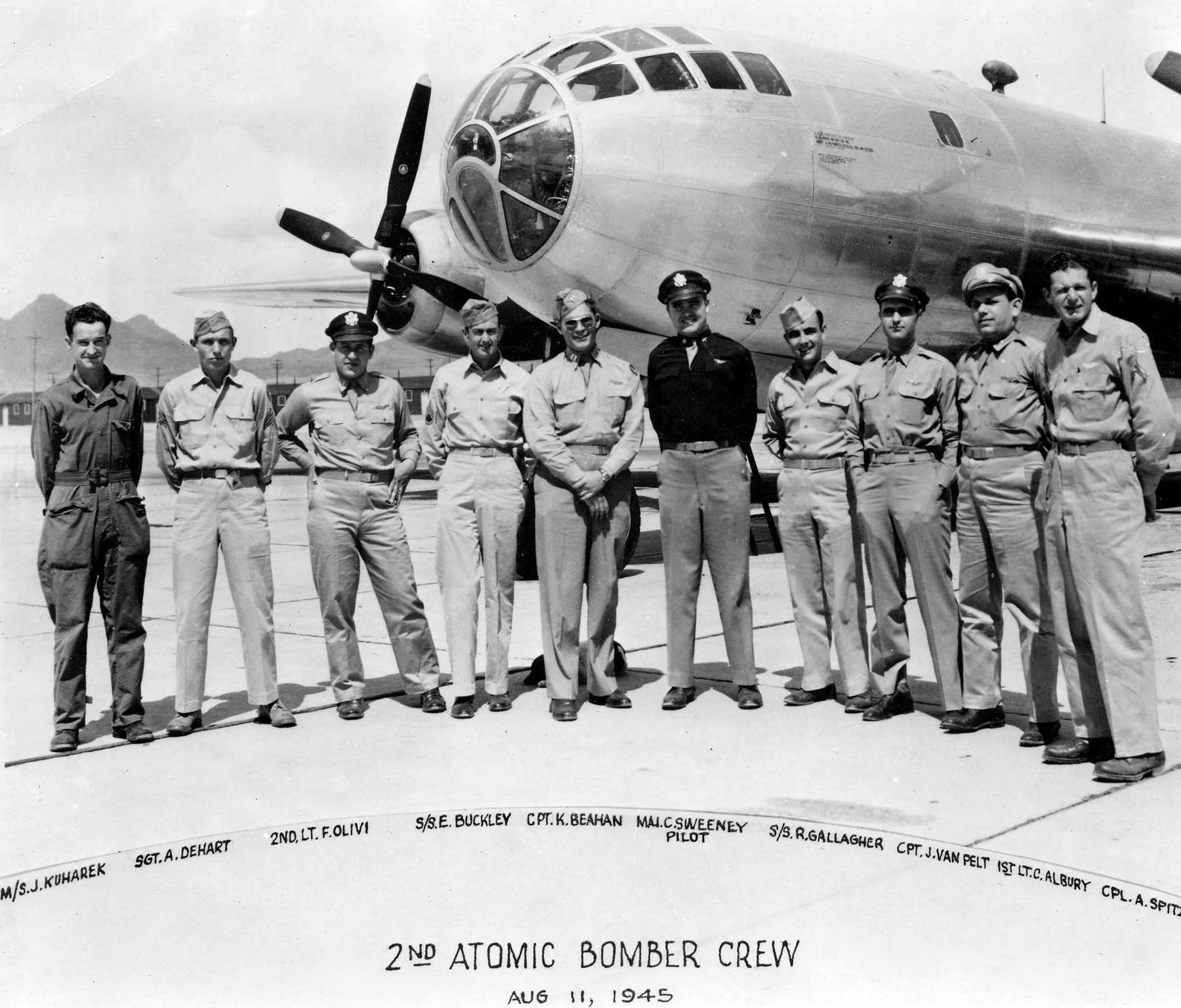 Boeing B-29 crew photo taken Aug. 11, 1945, two days after the Nagasaki mission. Note there is no nose art on the aircraft. (U.S. Air Force photo)